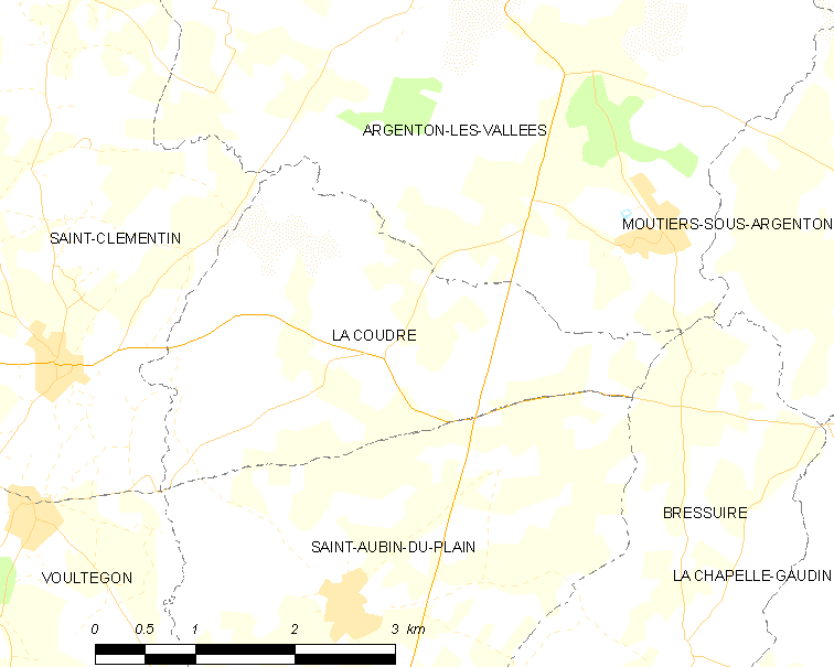 Map of French municipality La Coudre